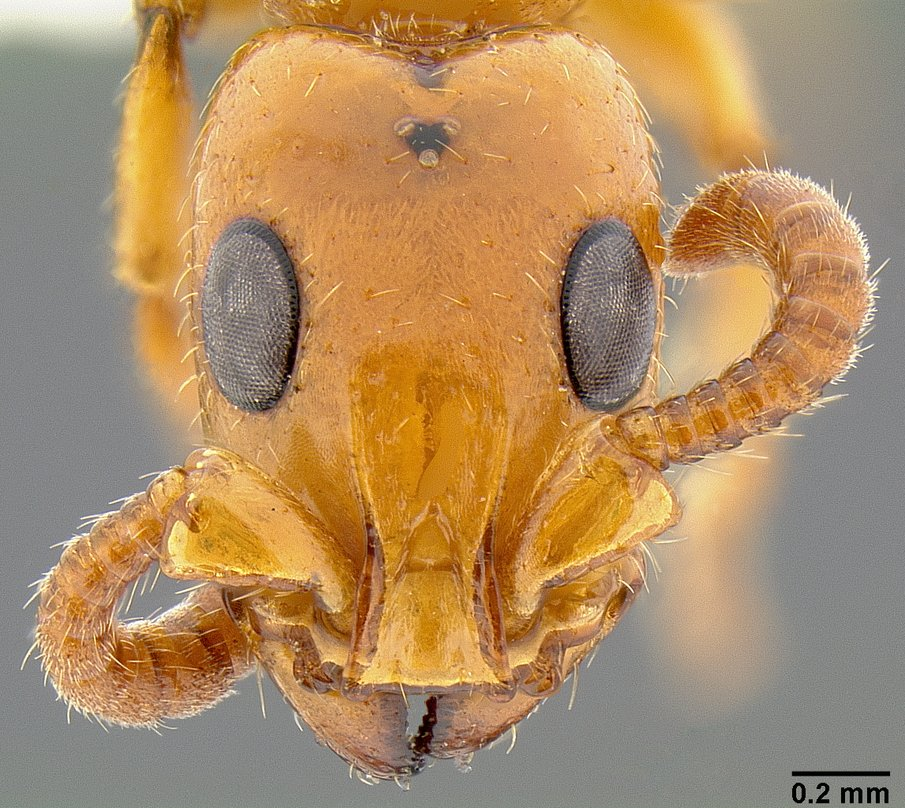 Head view of ant Simopone marleyi specimen casent0106075.